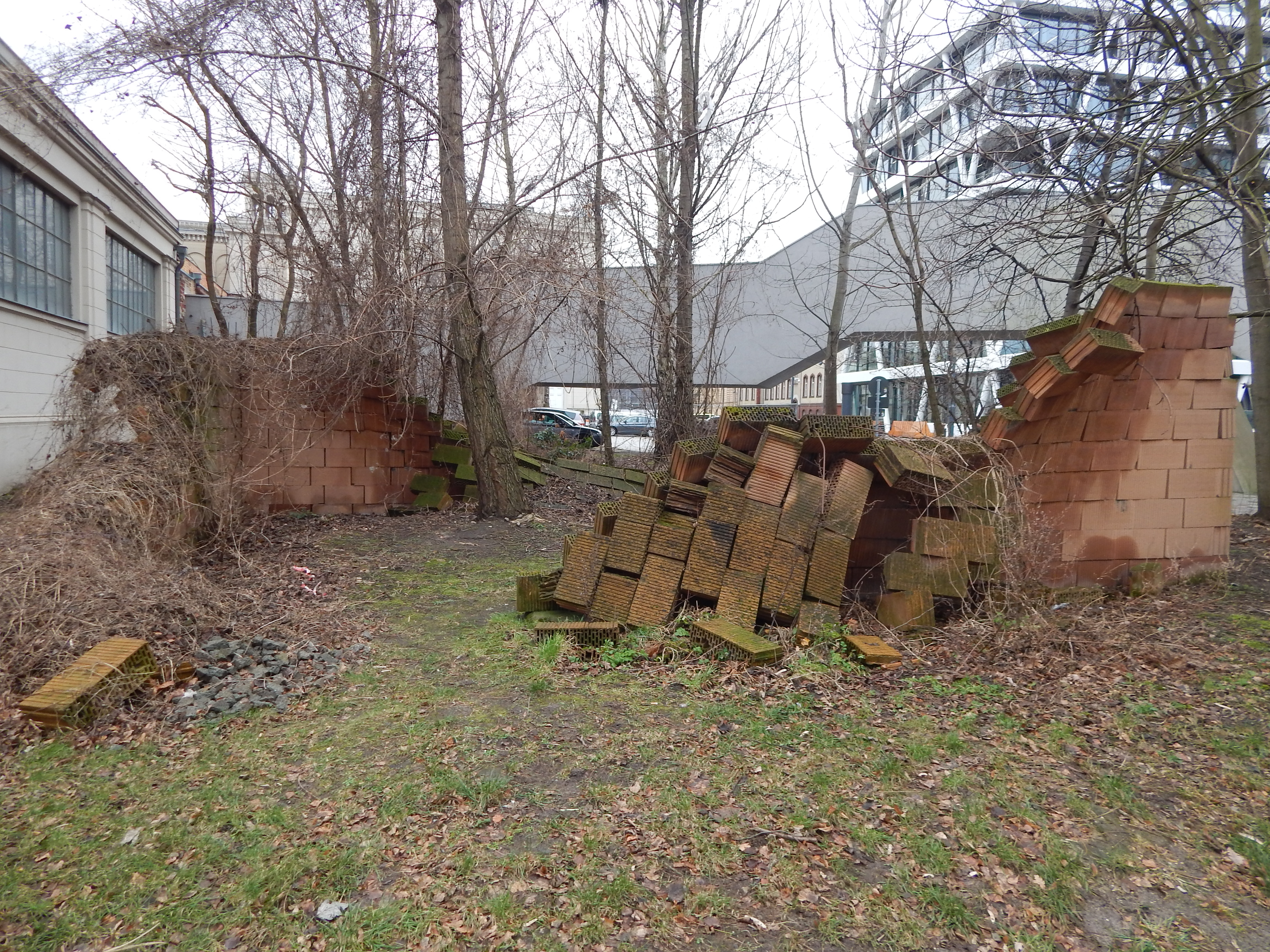 "Baked Master's Basket" (May also decay) 1999/2005 by Urs Fischer